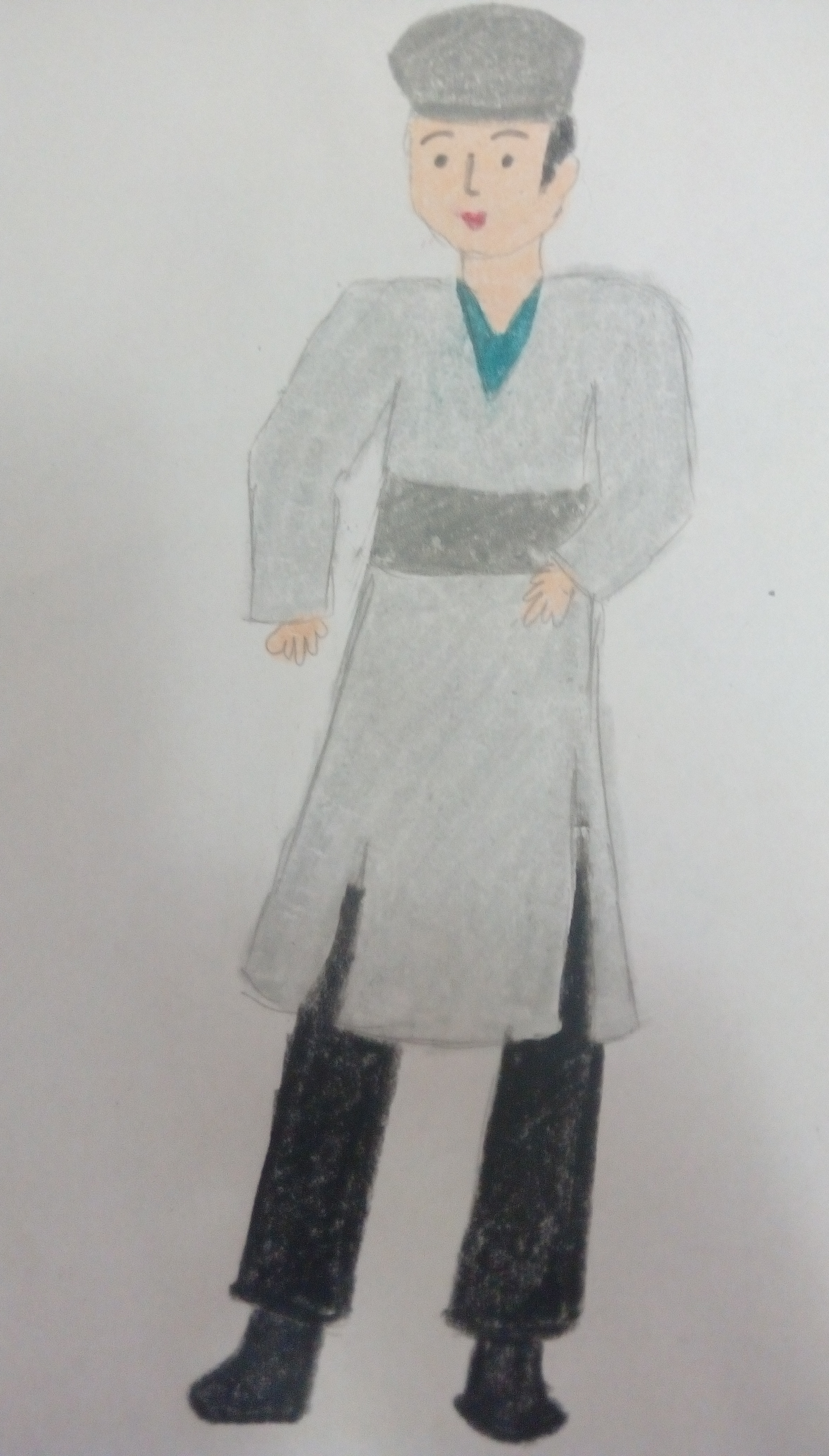 Basseri